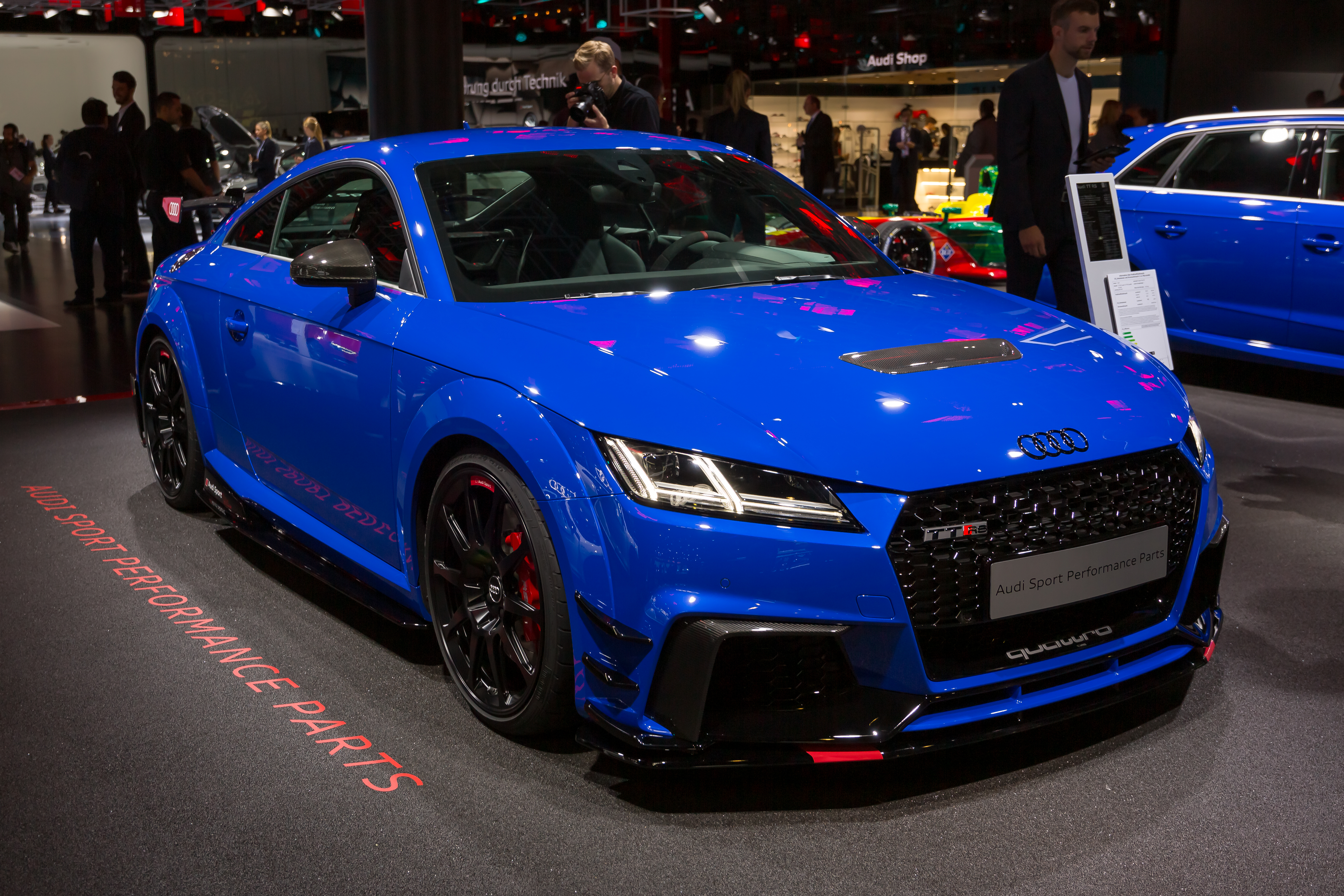 Audi TTRS Audi Sport Performance Parts, IAA 2017